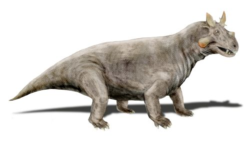 Estemmenosuchus mirabilis, a dinocephalian from the Middle Permian of Russia, pencil drawing & digital coloring